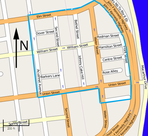 This map of New Bedford, United States was created from OpenStreetMap project data, collected by the community. This map may be incomplete, and may contain errors. Don't rely solely on it for navigation.